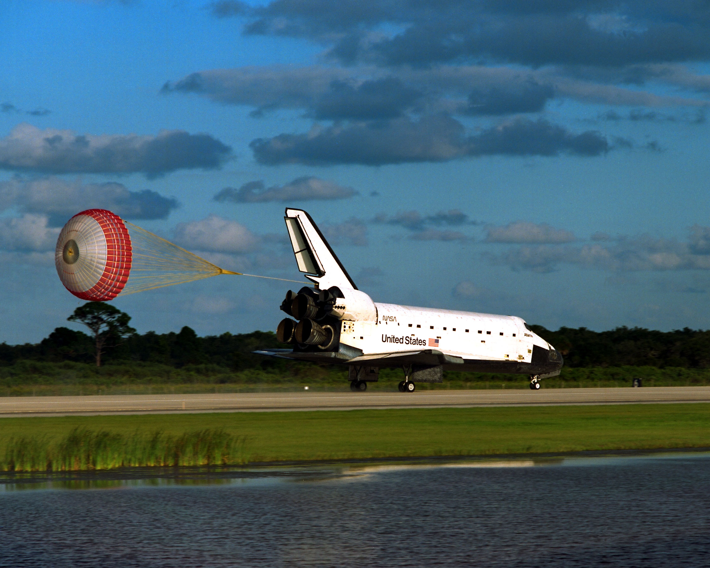 The orbiter drag chute deploys after the Space Shuttle orbiter Atlantis lands on Runway 15 of the KSC Shuttle Landing Facility (SLF) at the conclusion of the nearly 11-day STS-86 mission. Main gear touchdown was at 5:55:09 p.m. EDT, Oct. 6, 1997, with an unofficial mission-elapsed time of 10 days, 19 hours, 20 minutes and 50 seconds. The first two KSC landing opportunities on Sunday were waved off because of weather concerns. The 87th Space Shuttle mission was the 40th landing of the Shuttle at KSC. On Sunday evening, the Space Shuttle program reached a milestone: The total flight time of the Shuttle passed the two-year mark. STS- 86 was the seventh of nine planned dockings of the Space Shuttle with the Russian Space Station Mir. STS-86 Mission Specialist David A. Wolf replaced NASA astronaut and Mir 24 crew member C. Michael Foale, who has been on the Mir since mid-May. Foale returned to Earth on Atlantis with the remainder of the STS-86 crew. The other crew members are Commander James D. Wetherbee, Pilot Michael J. Bloomfield, and Mission Specialists Wendy B. Lawrence, Scott E. Parazynski, Vladimir Georgievich Titov of the Russian Space Agency, and Jean-Loup J.M. Chretien of the French Space Agency, CNES. Wolf is scheduled to remain on the Mir until the STS-89 Shuttle mission in January. Besides the docking and crew exchange, STS-86 included the transfer of more than three-and-a-half tons of science/logistical equipment and supplies between the two orbiting spacecraft. Parazynski and Titov also conducted a spacewalk while Atlantis and the Mir were docked.